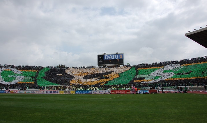 Tifo Ultres Green Boys (Raja Casablanca) double face changing process